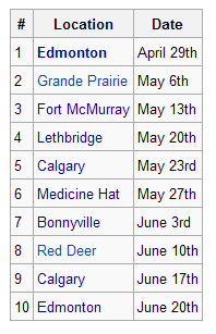 Date and location chart